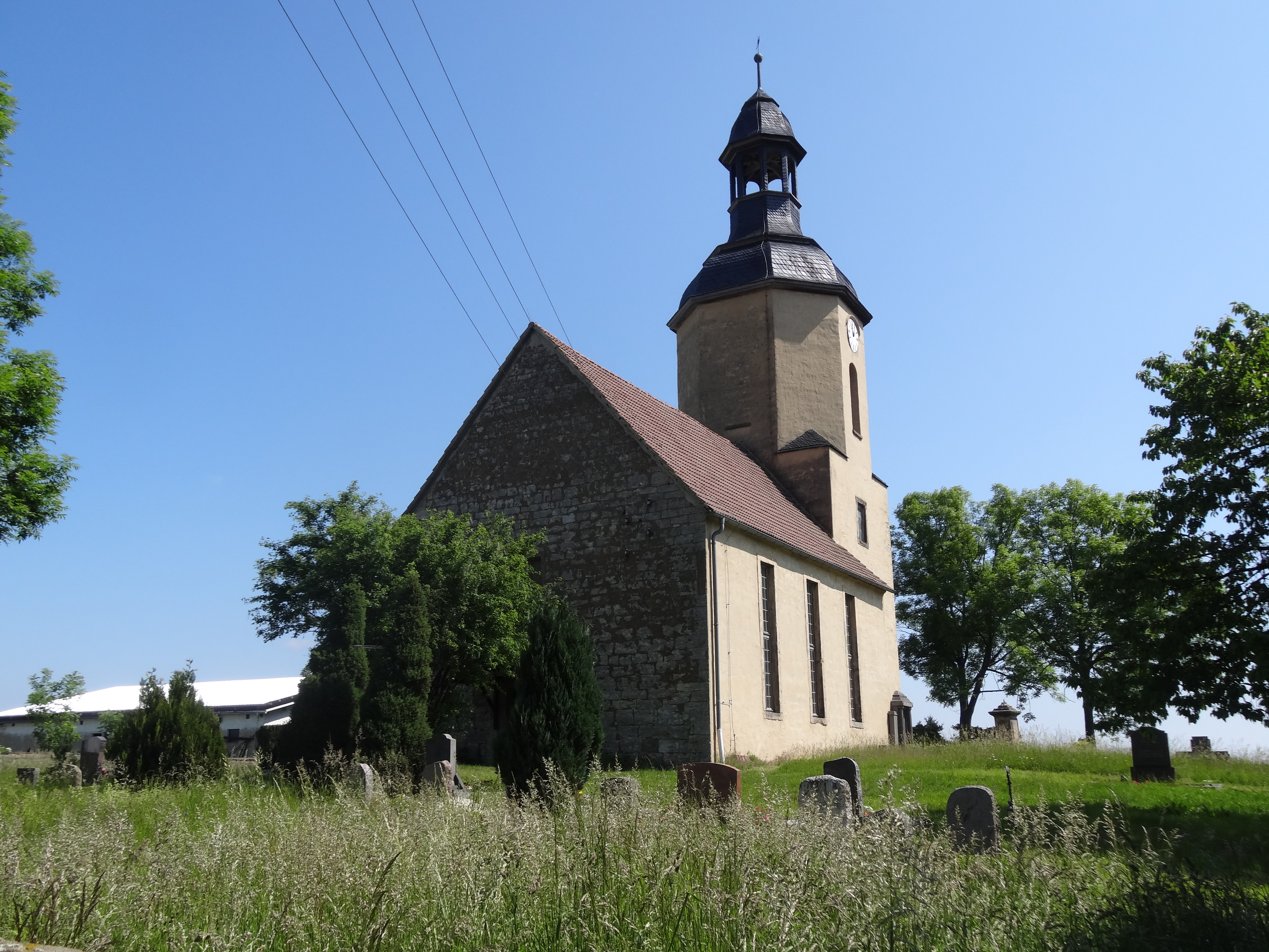 Church in Hohendorf, Bürgel, Thuringia, Germany